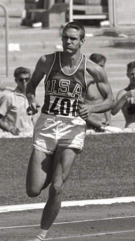 Earl Young running 400 metres sprint as the third heat of the Olympic quarterfinals. Rome, 3 of September 1960.